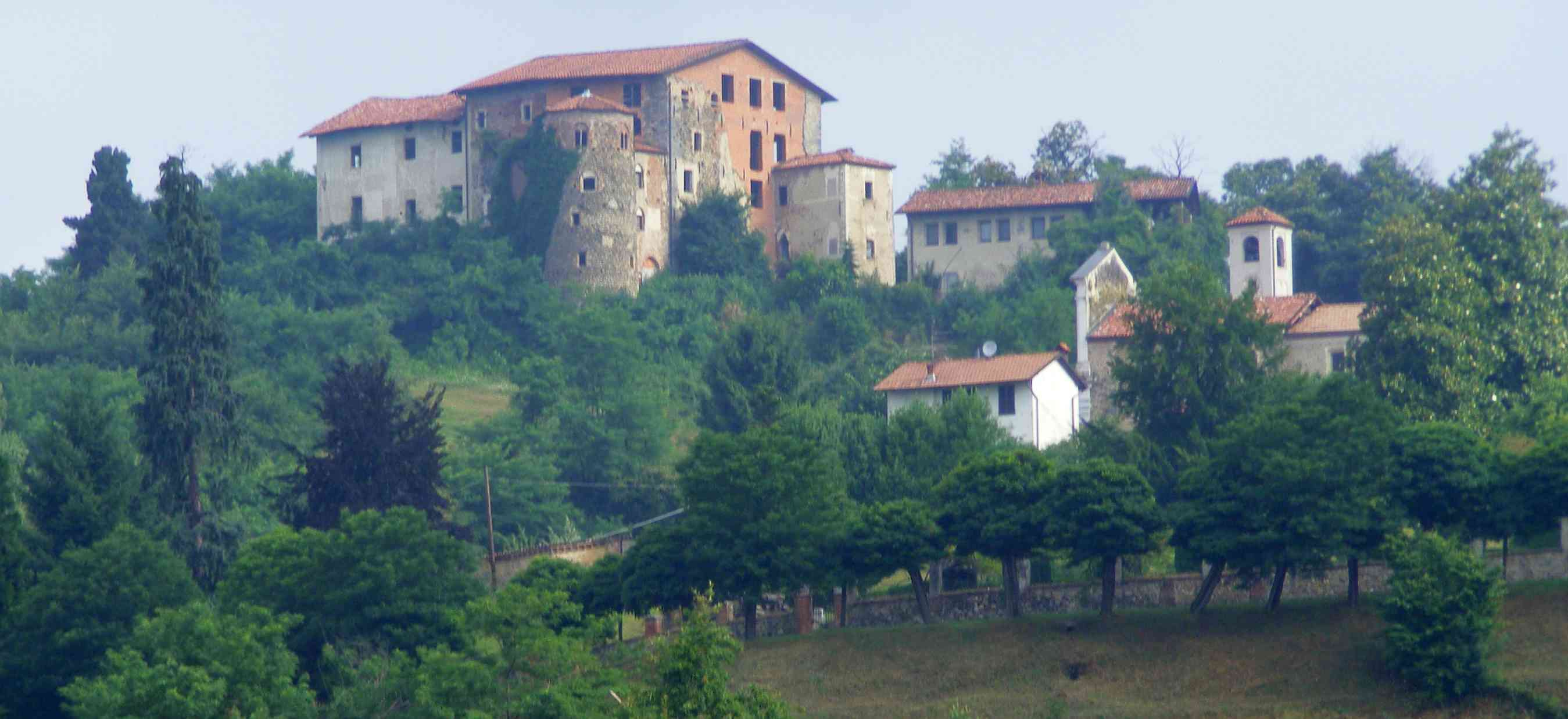 Cerreto's castle (BI, Italy)